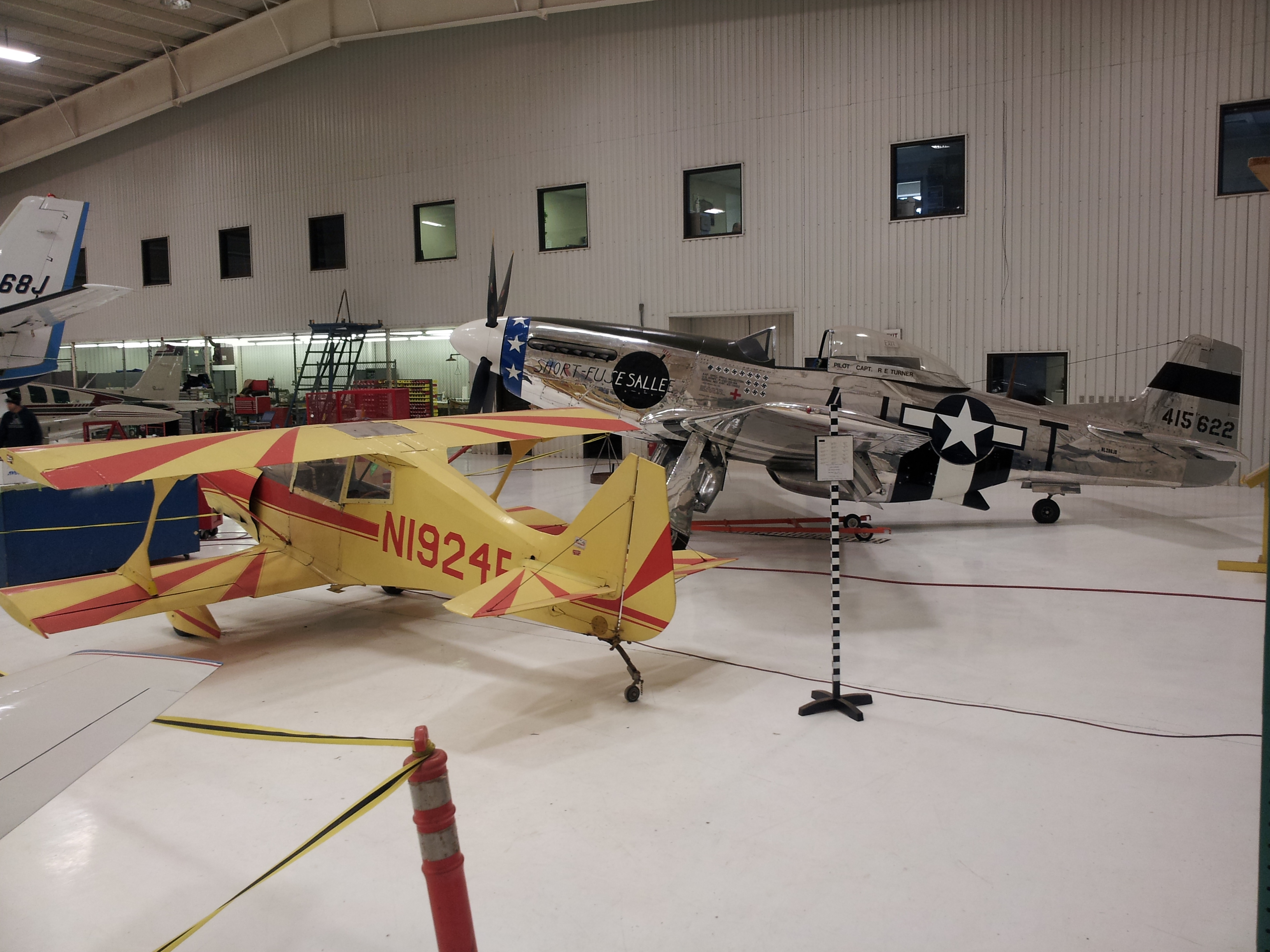 This photo shows the Bearcat and P-51D aircraft located at the Texas Air & Space Museum.